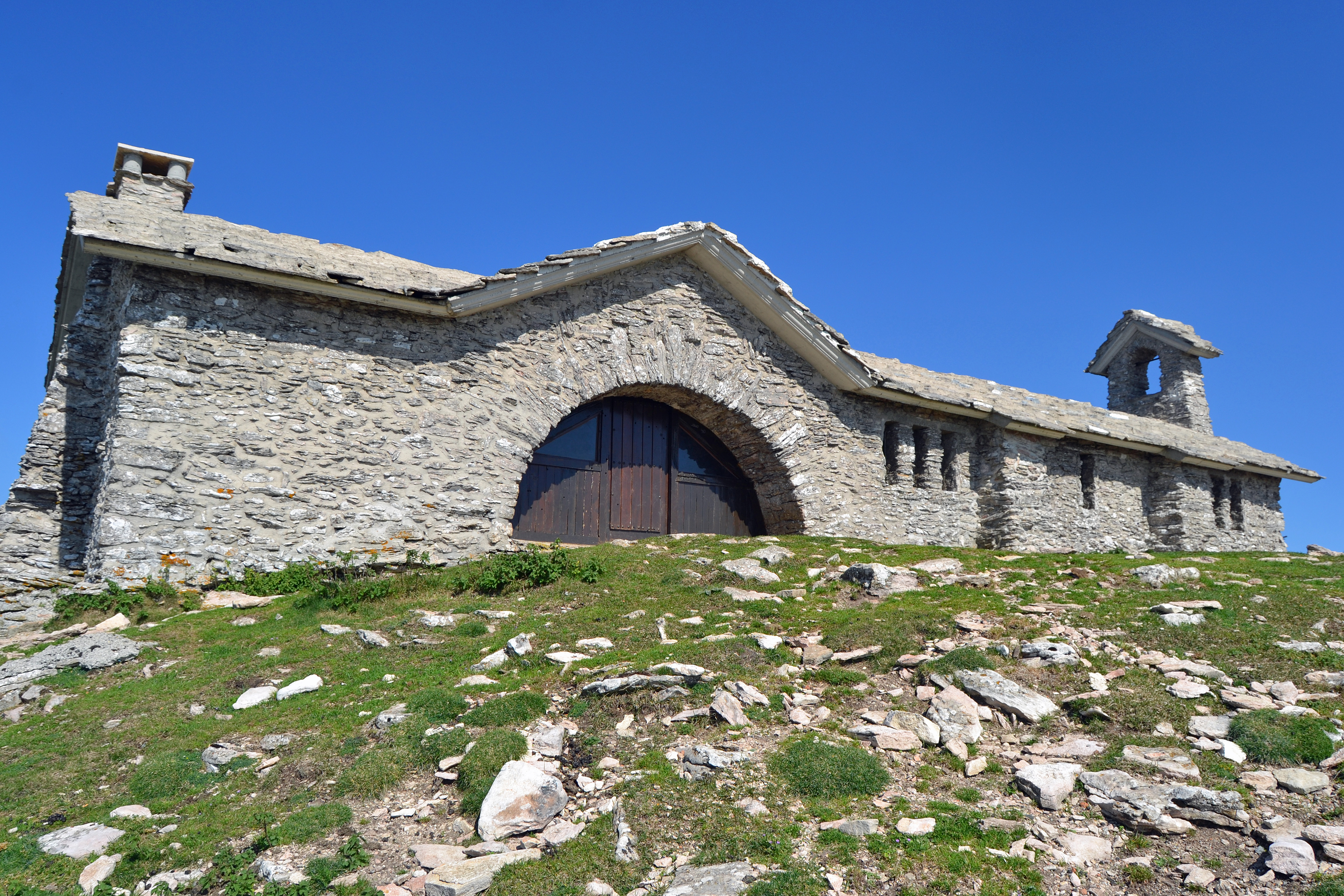 San Donato hermitage, Beriain mountain. Navarre, Basque Country.